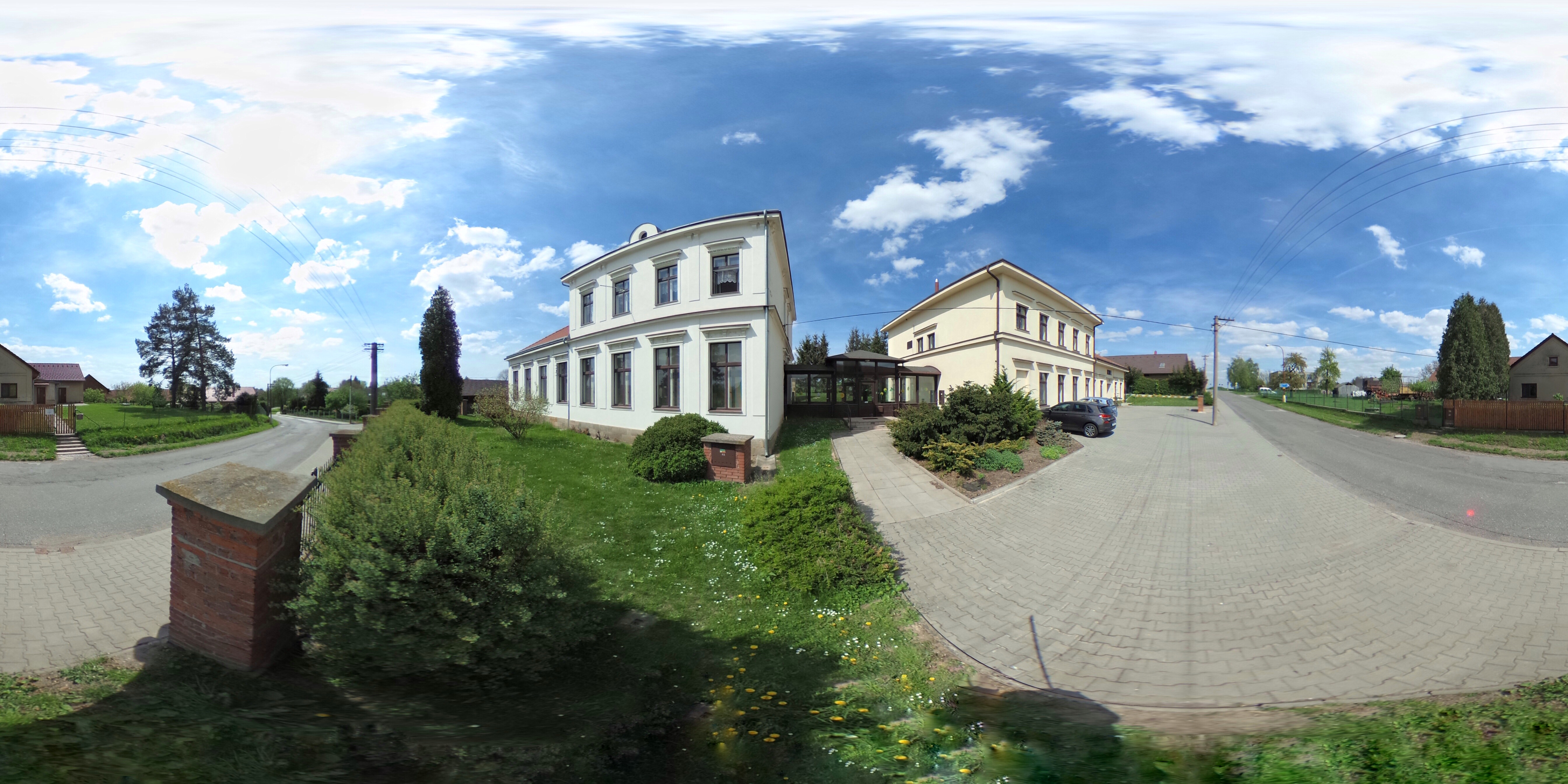 Elementary school in Mžany